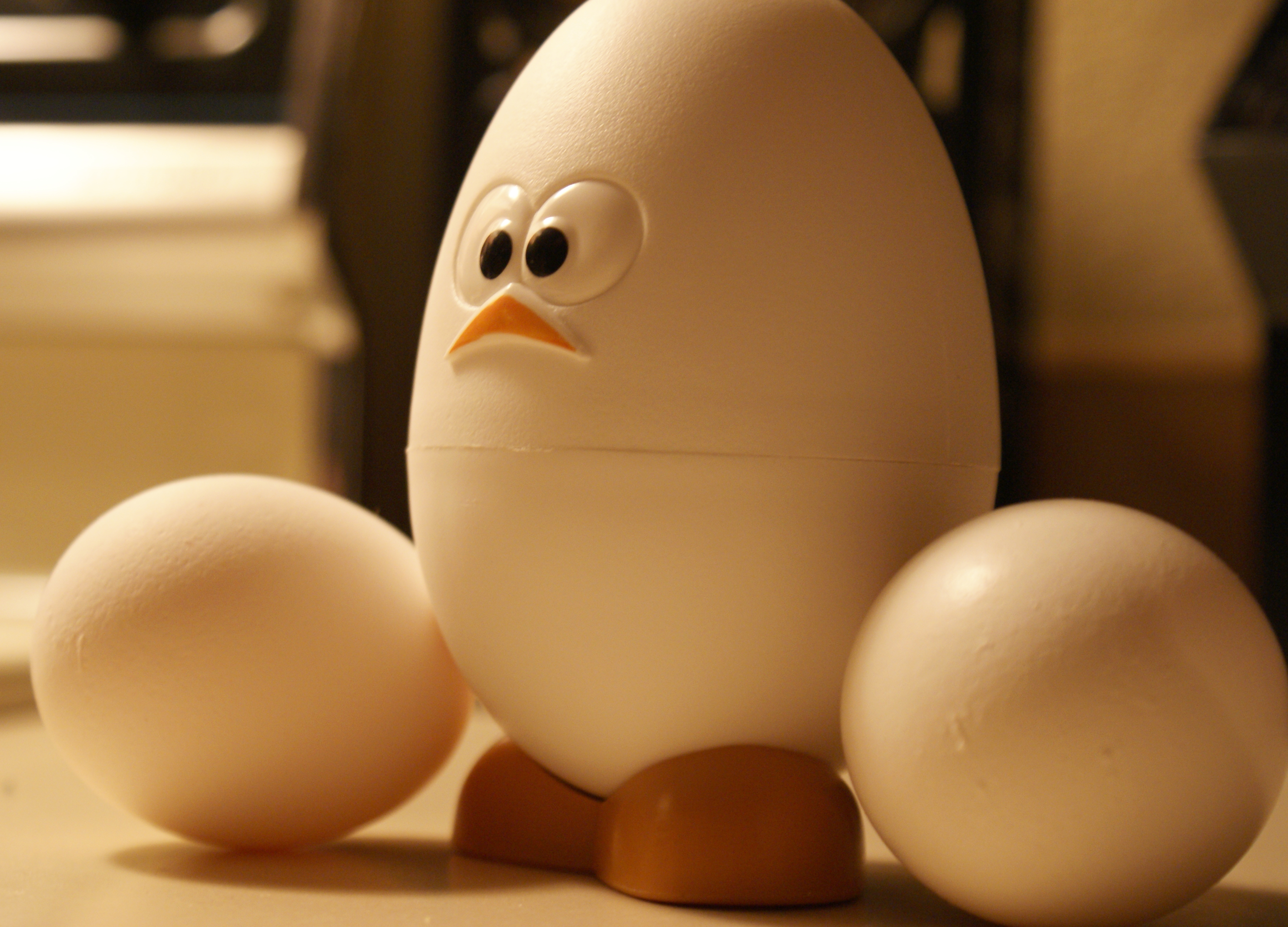 "Boiley" allows you to boil eggs in a microwave.